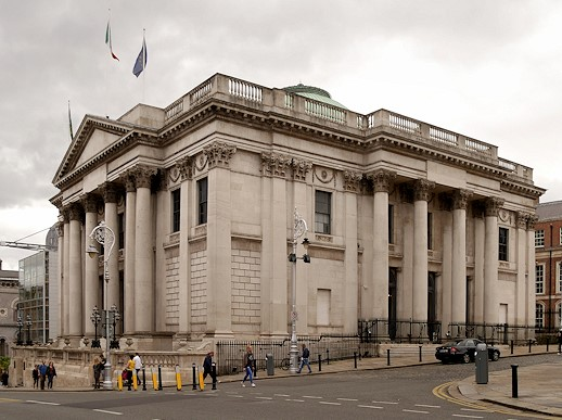 Dublin City Hall